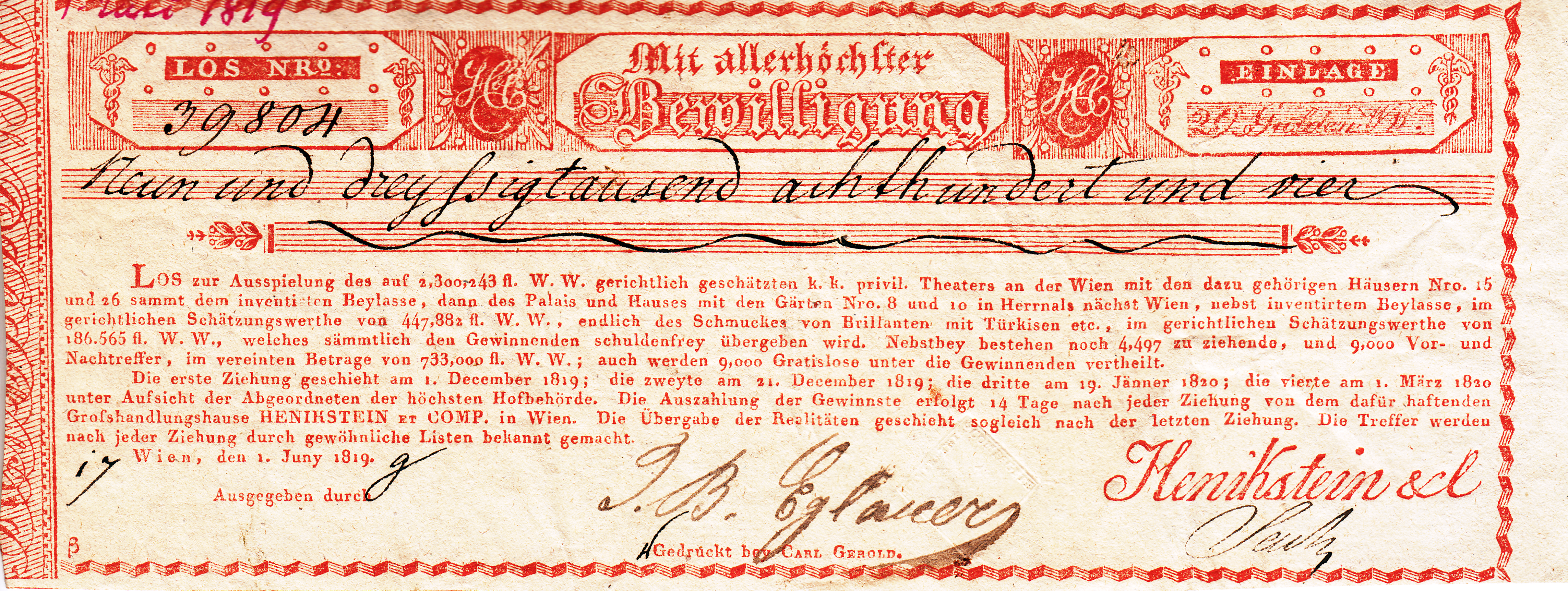 Theater an der Wien ( Vienna ). Lottery ticket ( 1819 ) as fund raiser for the theatre.